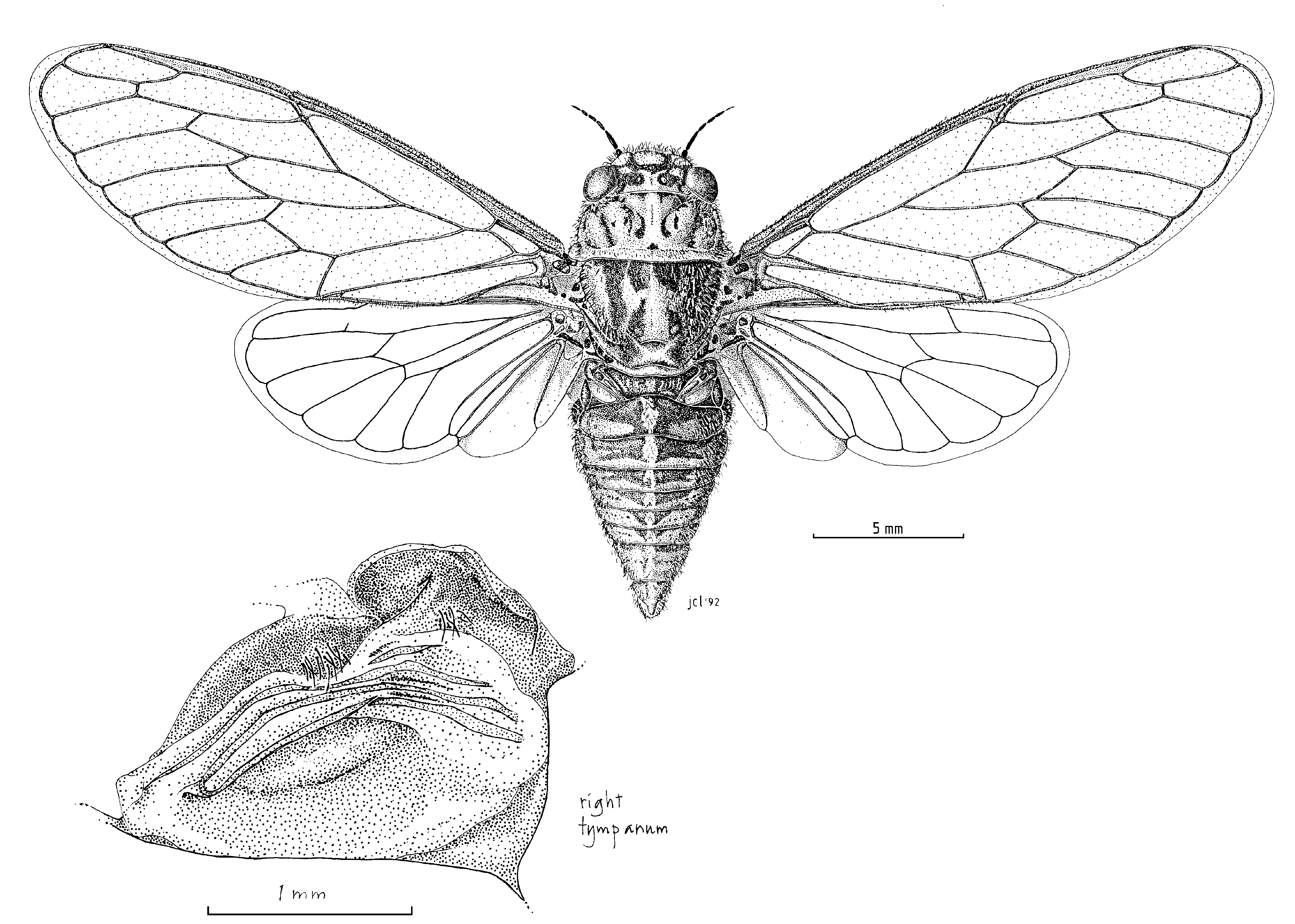 (Hemiptera: Cicadidae) Kikihia illustrated by Des Helmore.